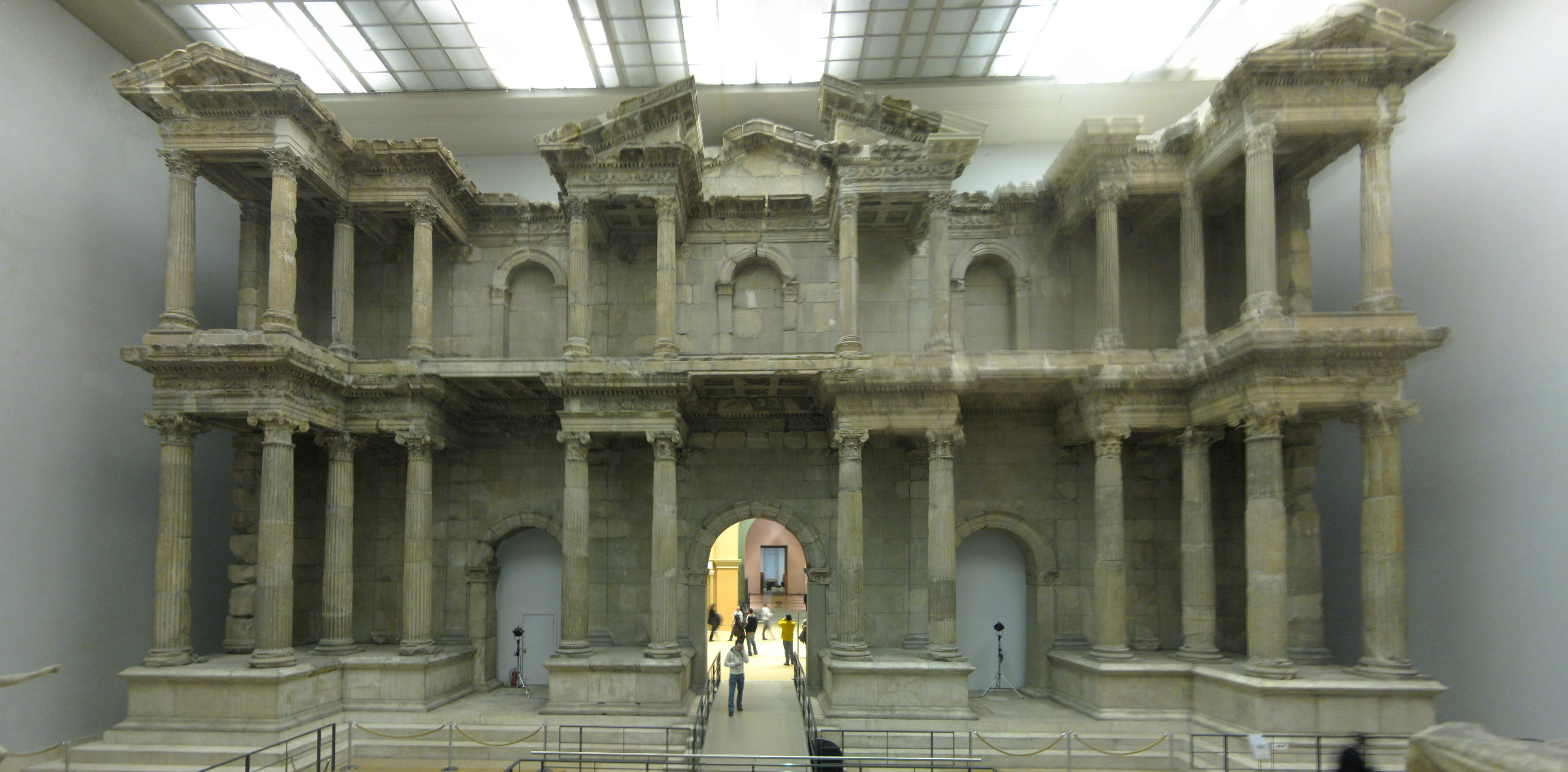 Market Gate of Miletus in the Pergamonmuseum (Berlin). This image was created with Hugin.